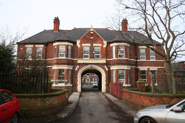 Old Hospital in Grimsby, Lincolnshire, approached by an avenue from Scartho Road. The avenue is now used as a car park and this building is a facility for Child and Family Services.